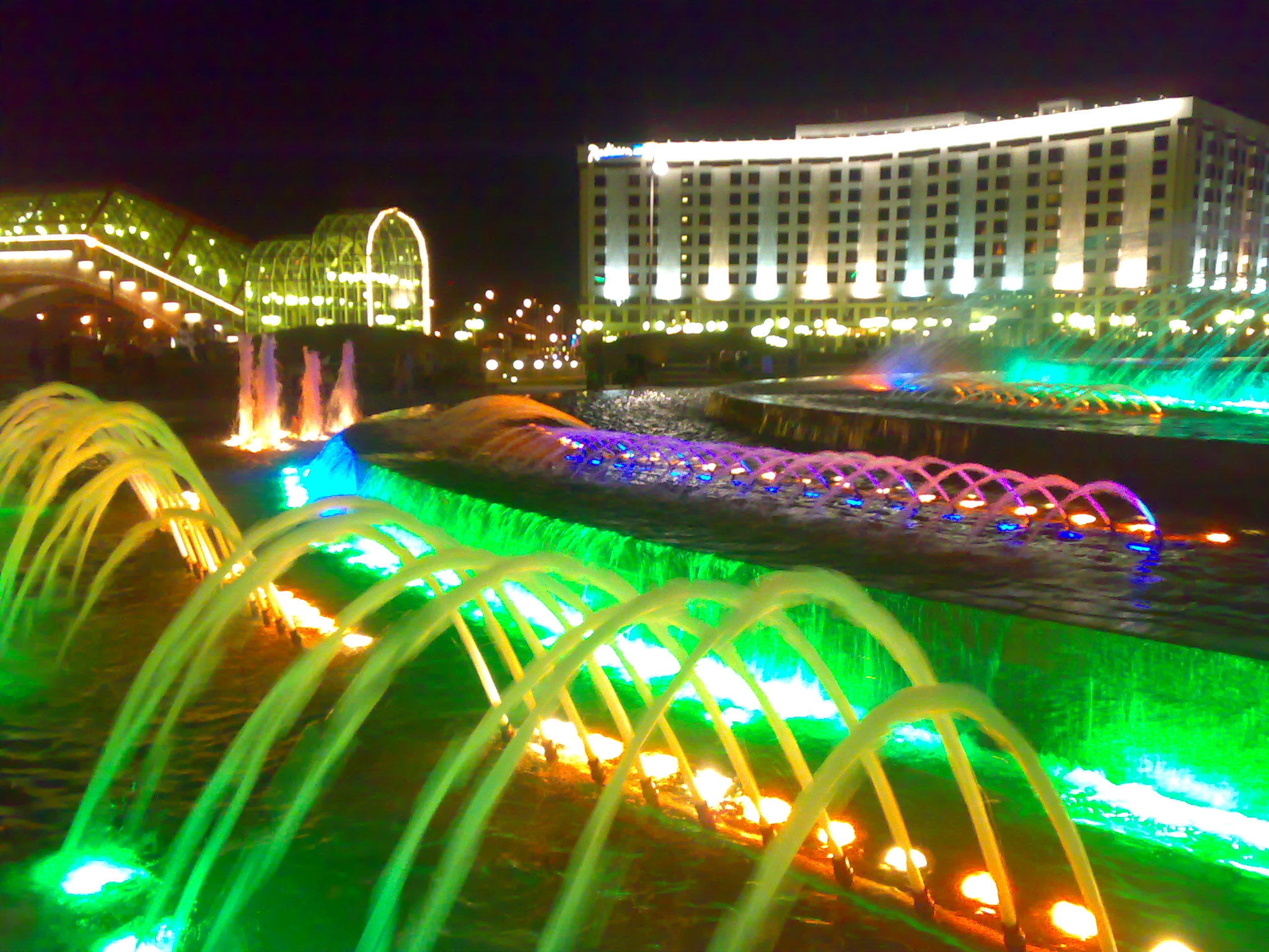 took using mobile, in June 2008, in Moscow. This is a fountain, lit at night, in Square of Europe, Moscow, with the Slavyanskaya Hotel in the background.